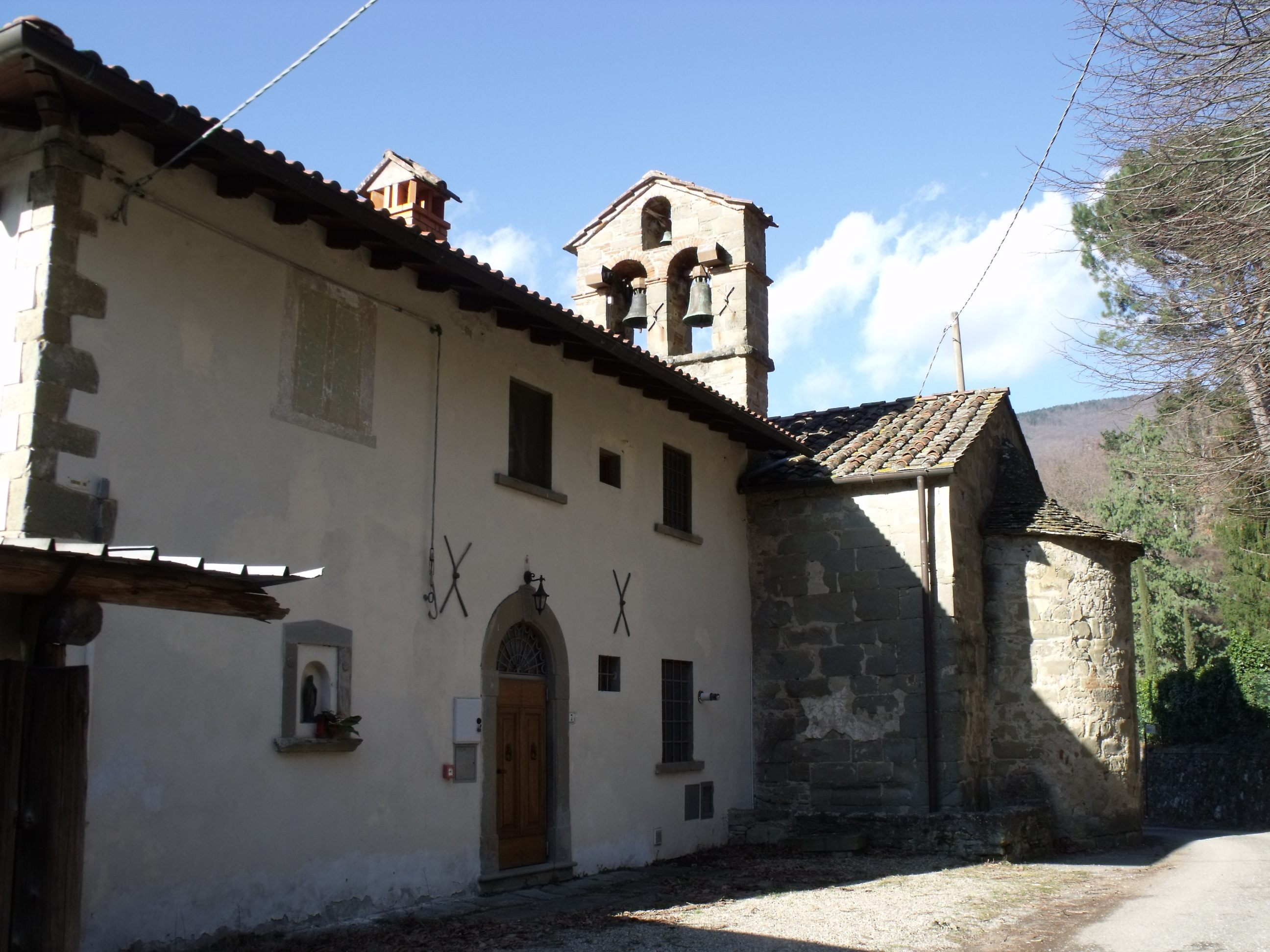 Church of Sant’Elena in Rincine, suburb of Londa, Province Florence, Tuscany, Italy